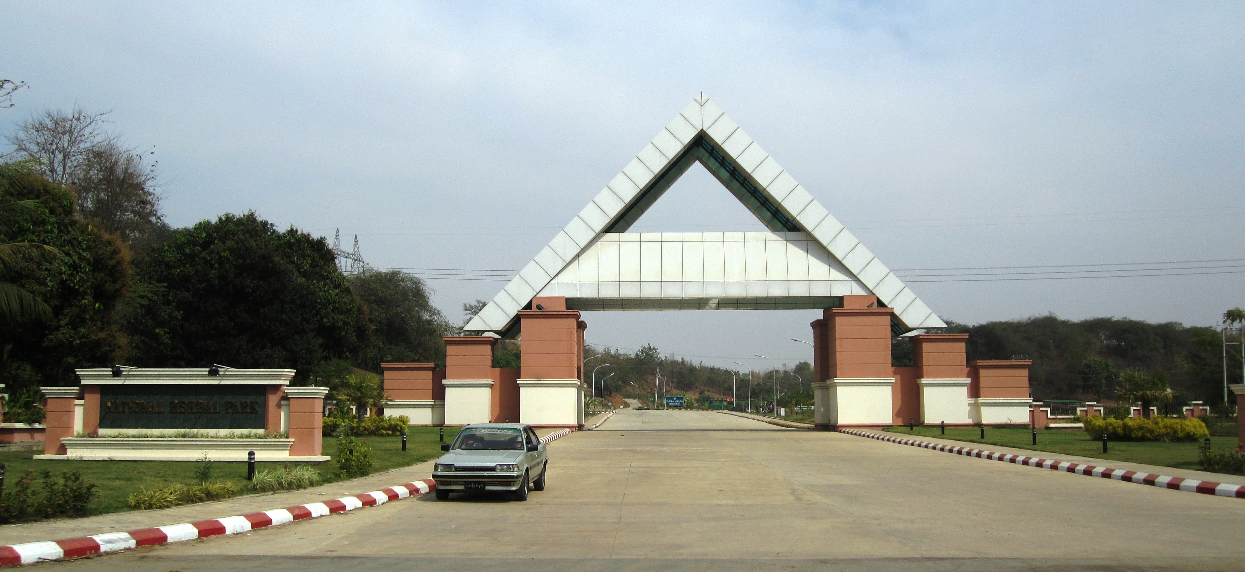 Naypyidaw, Naypyidaw Capital Region, Myanmar: National Herbal Park.